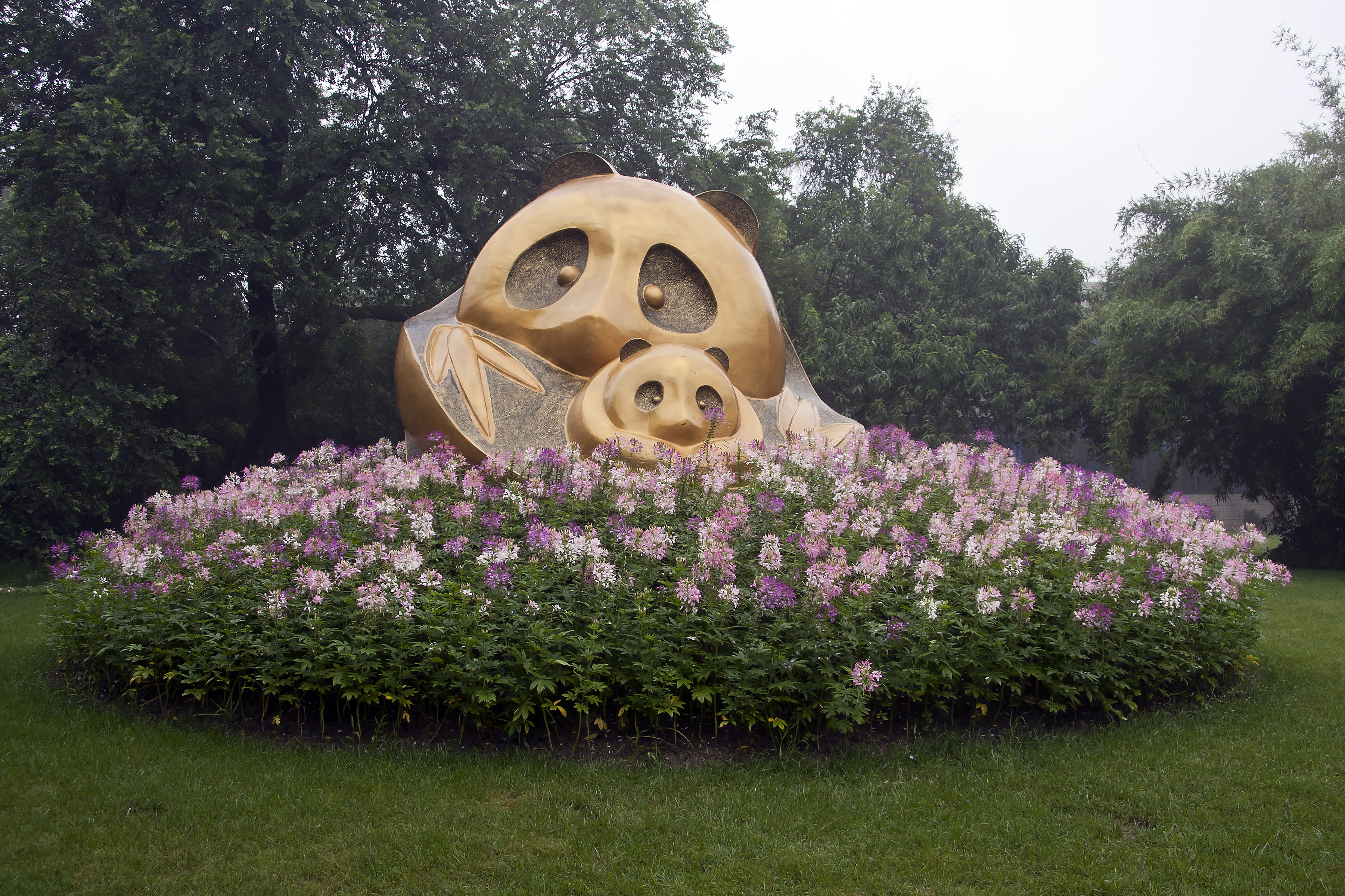 Decoration at Chengdu Research Base of Giant Panda Breeding in China.